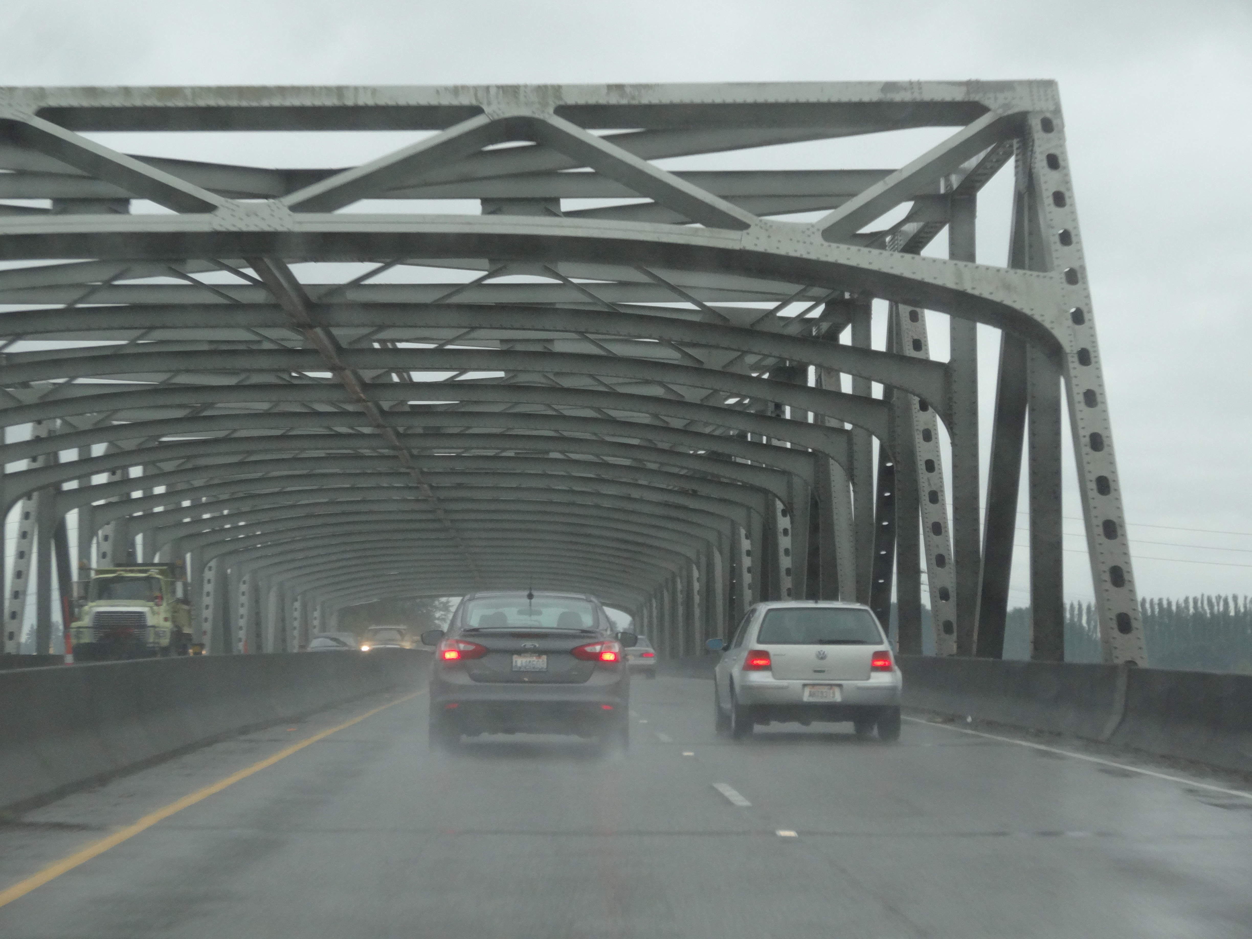 The Interstate 5 bridge over the Skagit River in Washington, driving southbound. Taken two weeks before its collapse.